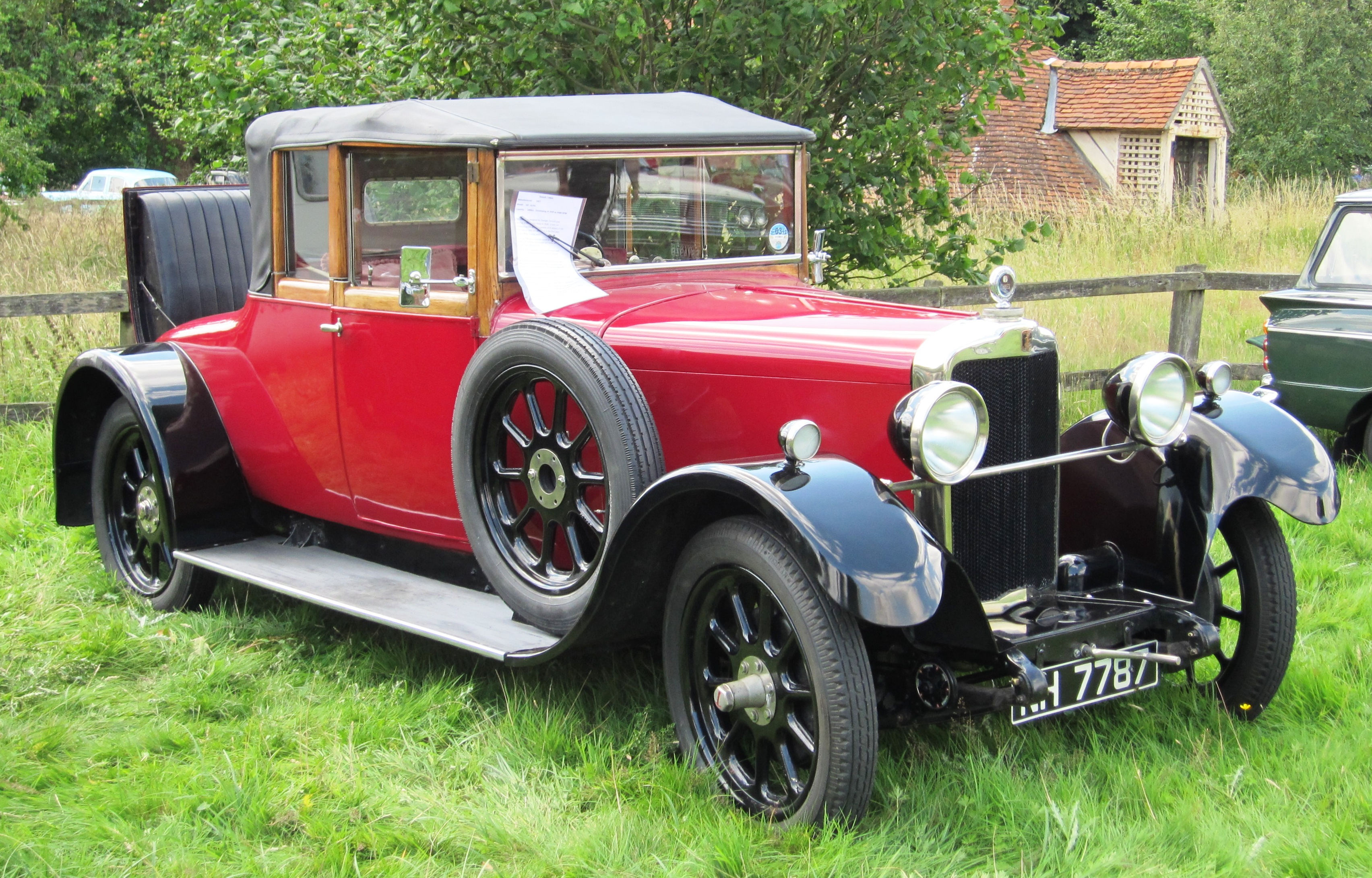 Talbot reportedly first registered in UK May 1925 (elsewhere 1927)